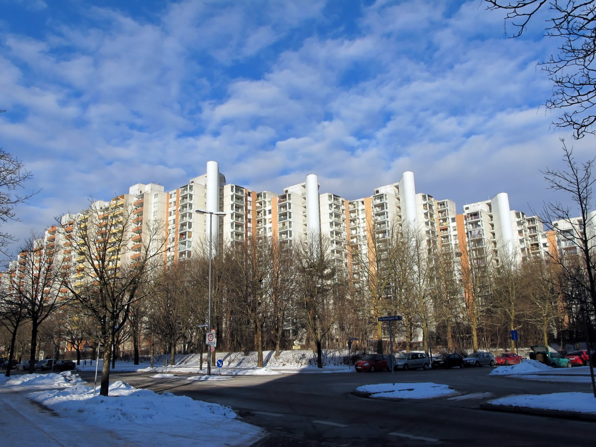 Munich,suburb Neuperlach, Tower Block at Street Schumacherring